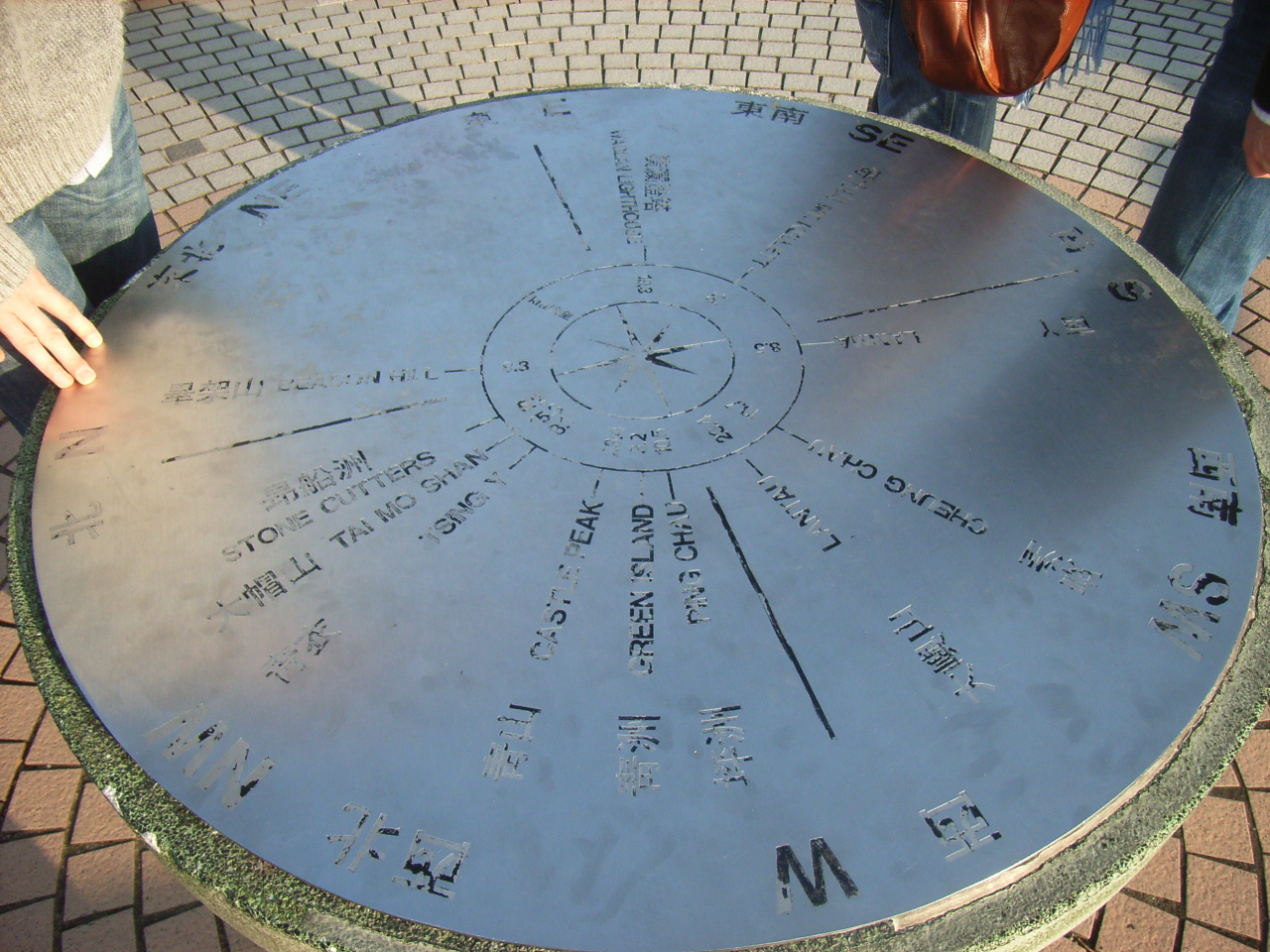 Victoria Peak Garden, Mount Austin Road, Victoria Peak, Hong Kong Photographer and author is ParkerStarS.